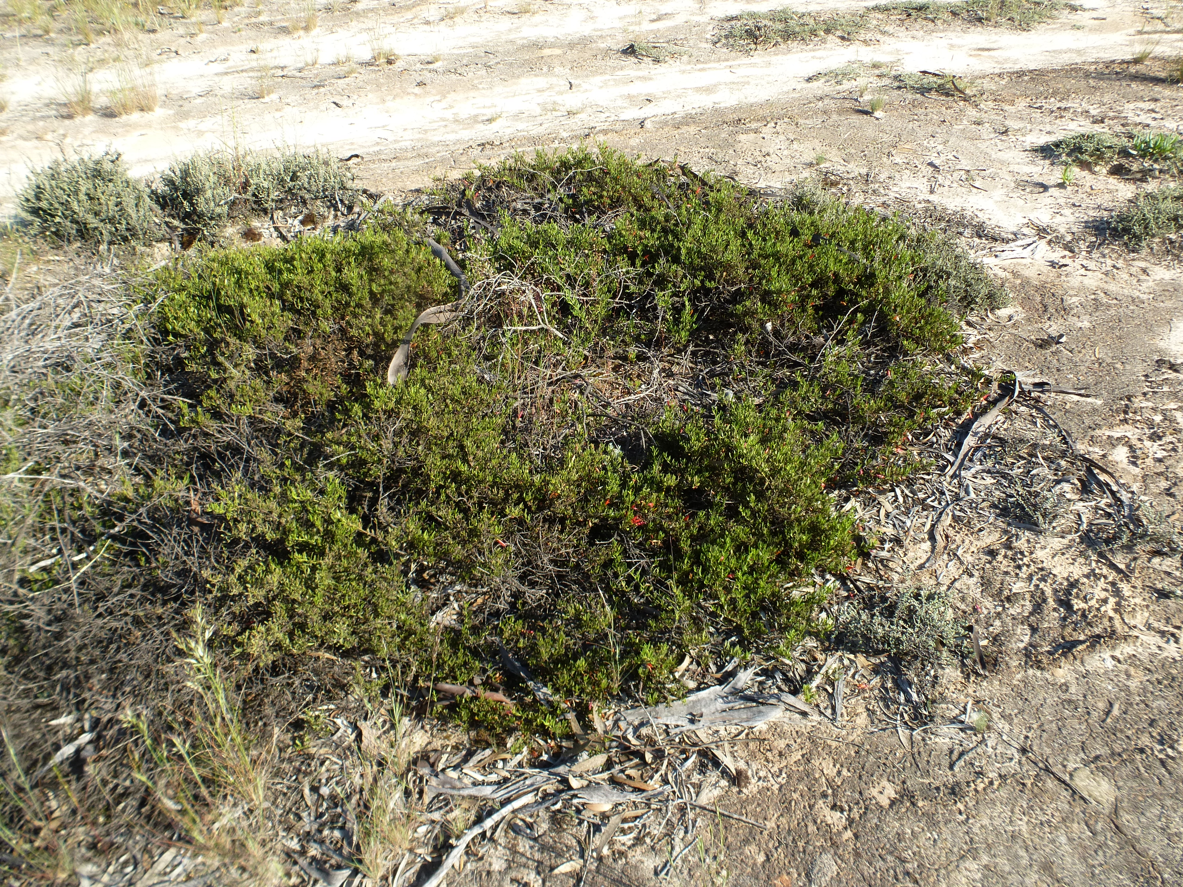 Eremophila decipiens growing 20km south of Salmon Gums